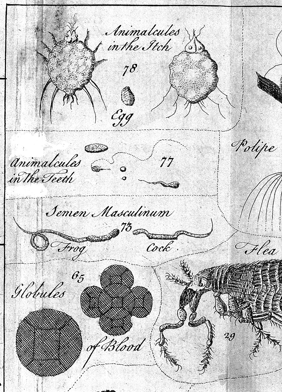 Animalcules in the teeth Rare Books Keywords: 18th century; Microscopes; Dentistry